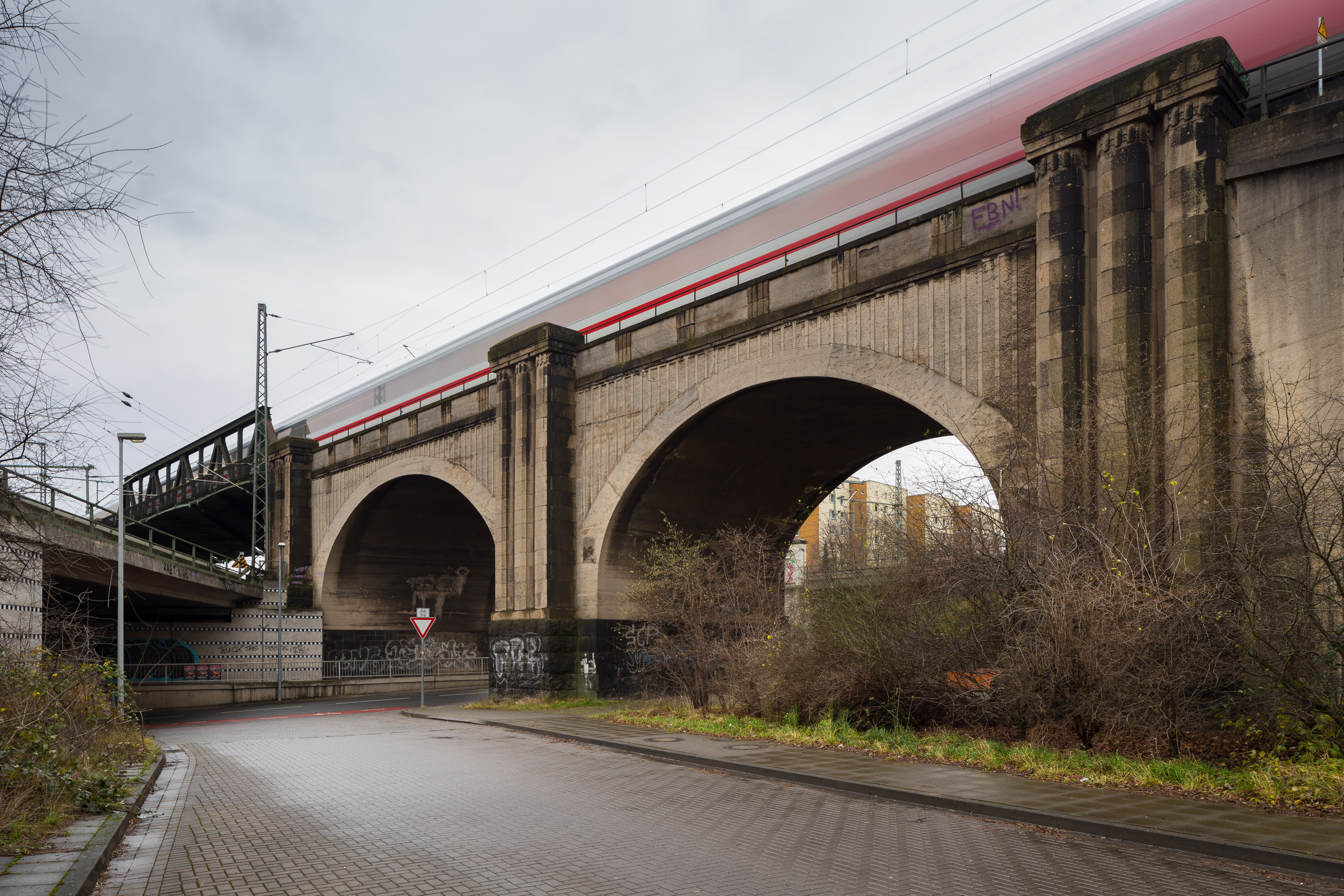 Raildroad bridge over Schaumburgstrasse in Herrenhausen and Leinhausen district of Hannover, Germany.